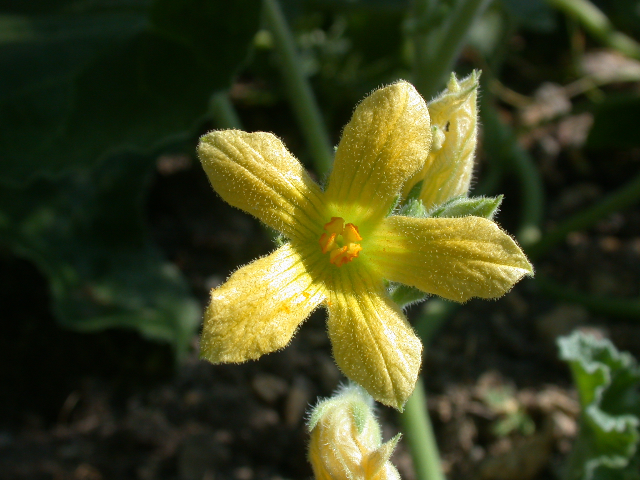 Flower of Ecballium elaterium (Cucurbitaceae), Botanical Garden Bern, Switzerland